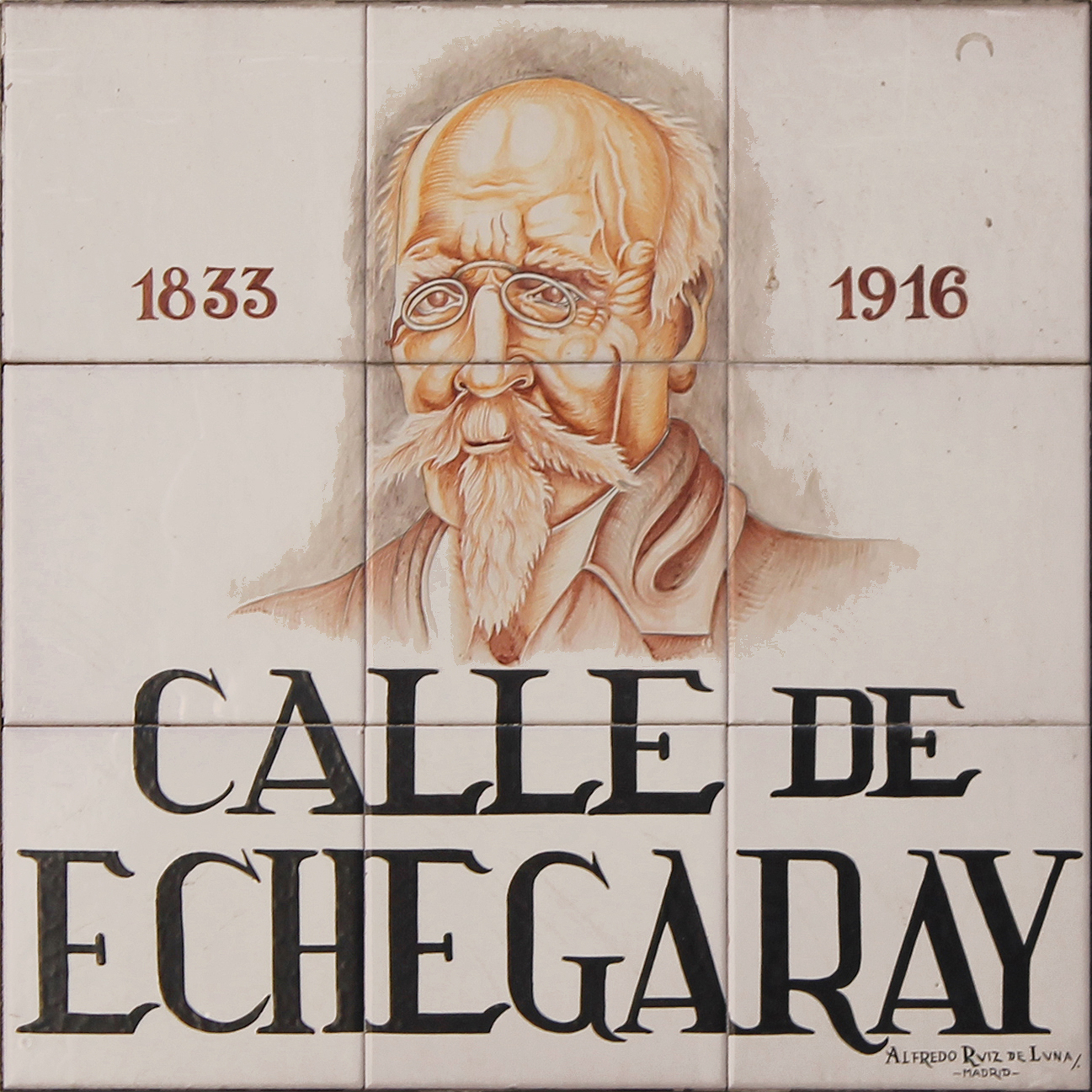 Sign of Calle de Echegaray (street) in Madrid (Spain).